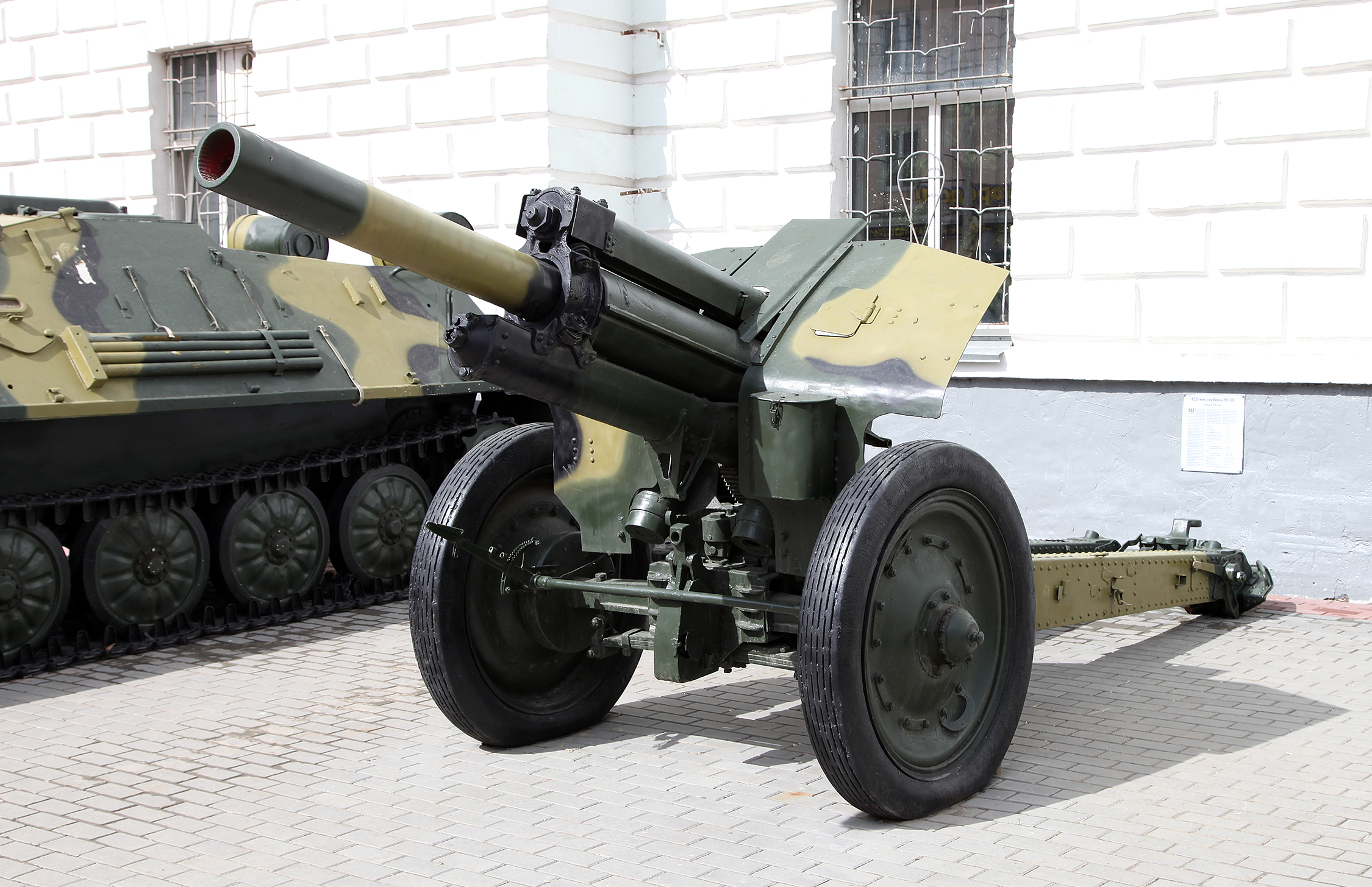 122mm M-30 howitzer